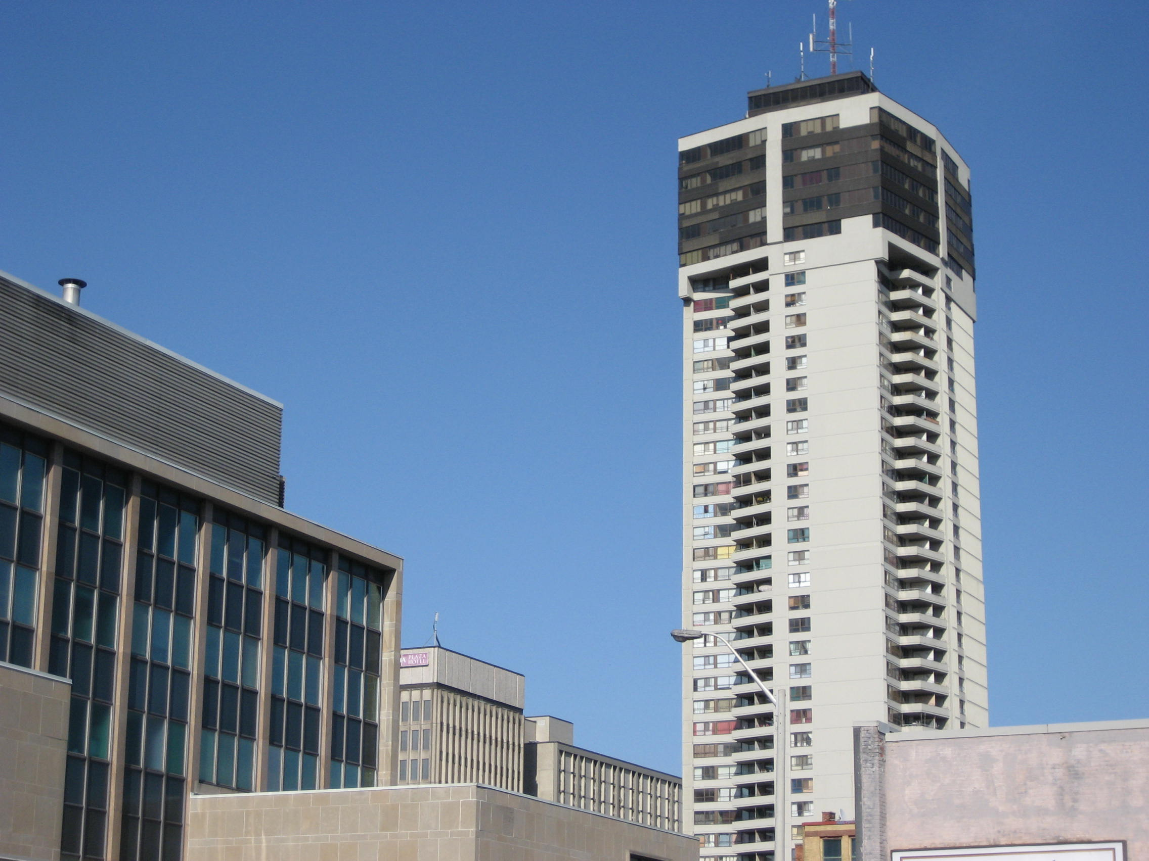 Landmark Place,Historic Christ Church, Tiruchendur-Amalinagar India 628215